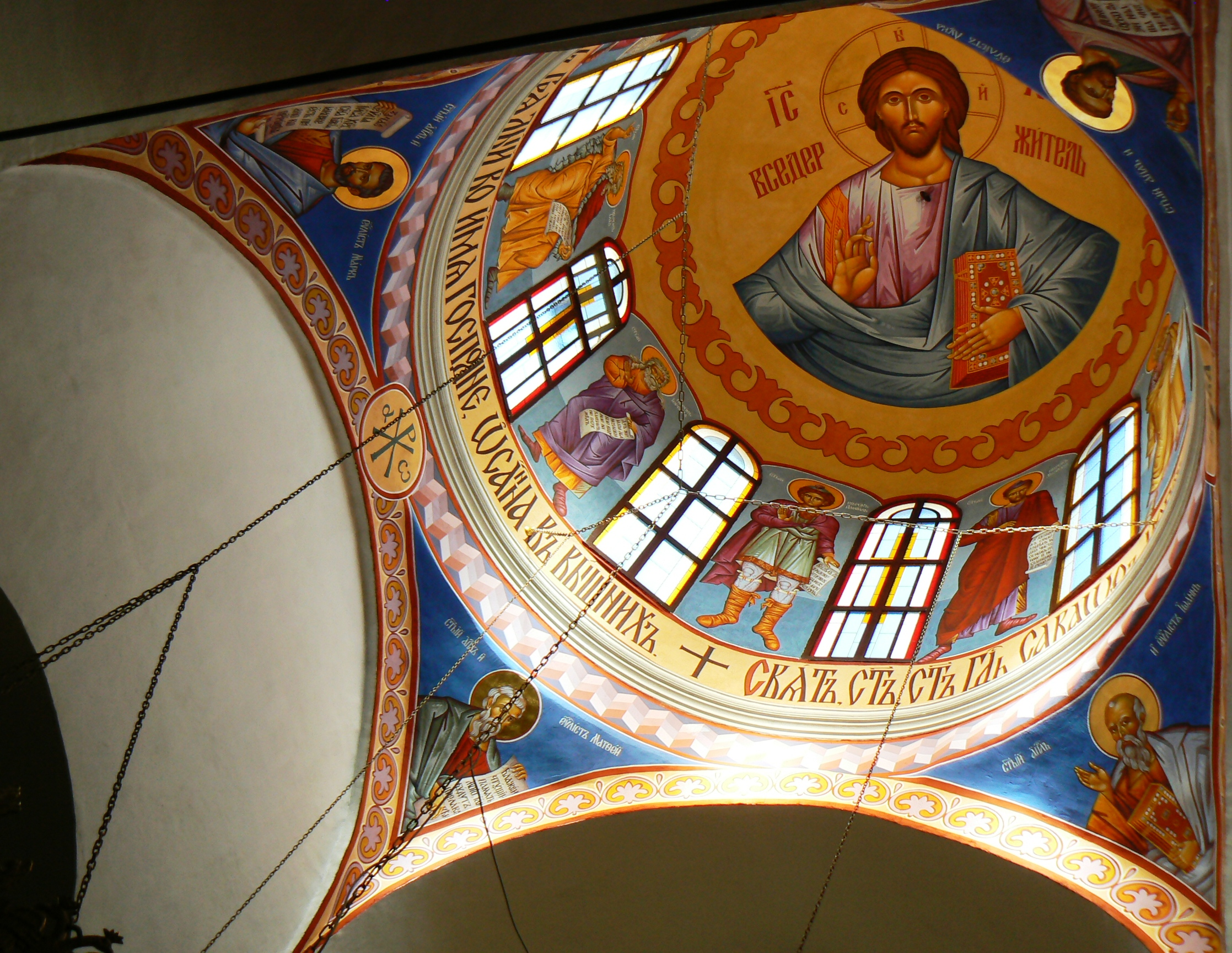 Inside the dome of church "St John Precursor" in Bratsigovo, Bulgaria.